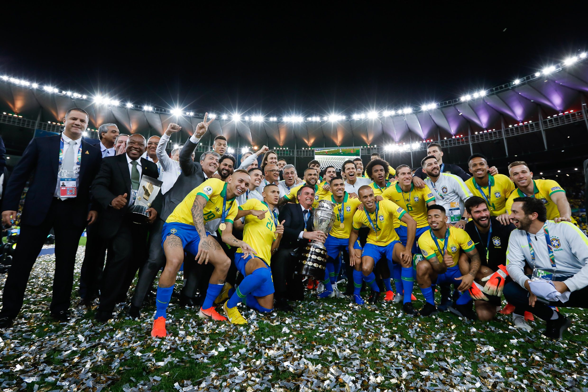 (Rio de Janeiro - RJ, 07/07/2019) Presidente da República, Jair Bolsonaro, e o Presidente da Confederação Sul-Americana de Futebol (CONMEBOL), Alejandro Domínguez, durante entrega da premiação da Copa América 2019. Foto: Carolina Antunes/PR